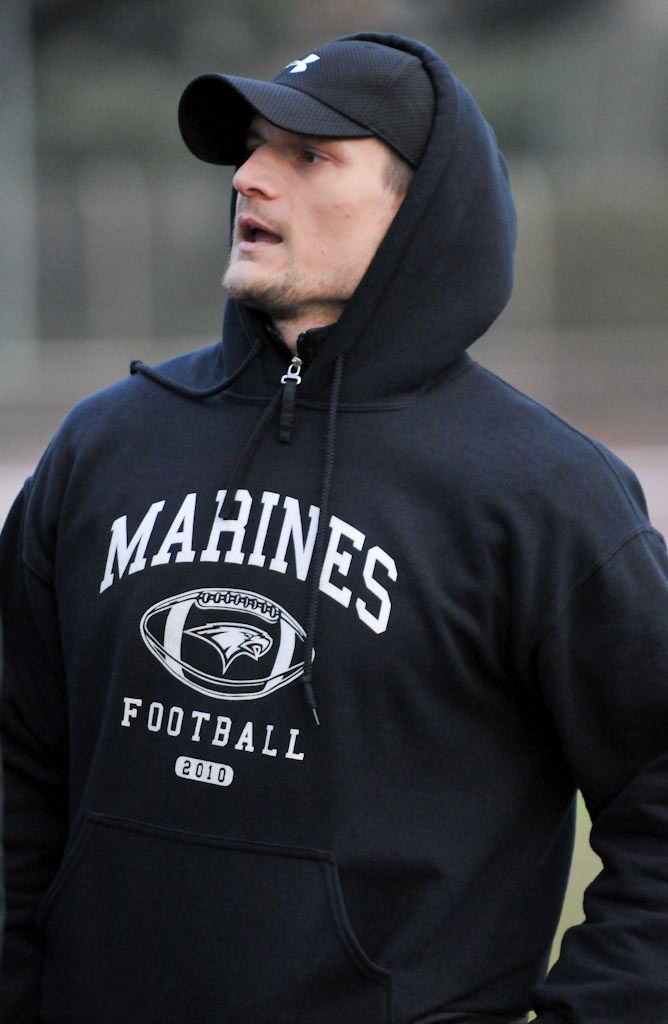 Brock Olivo, former American football running back in the NFL (Detroit Lions), former Head Coach and Offensive Coordinator of the Italy national American football team, actual Running Backs and Special Teams' Coach for the Omaha Nighthawks (UFL).